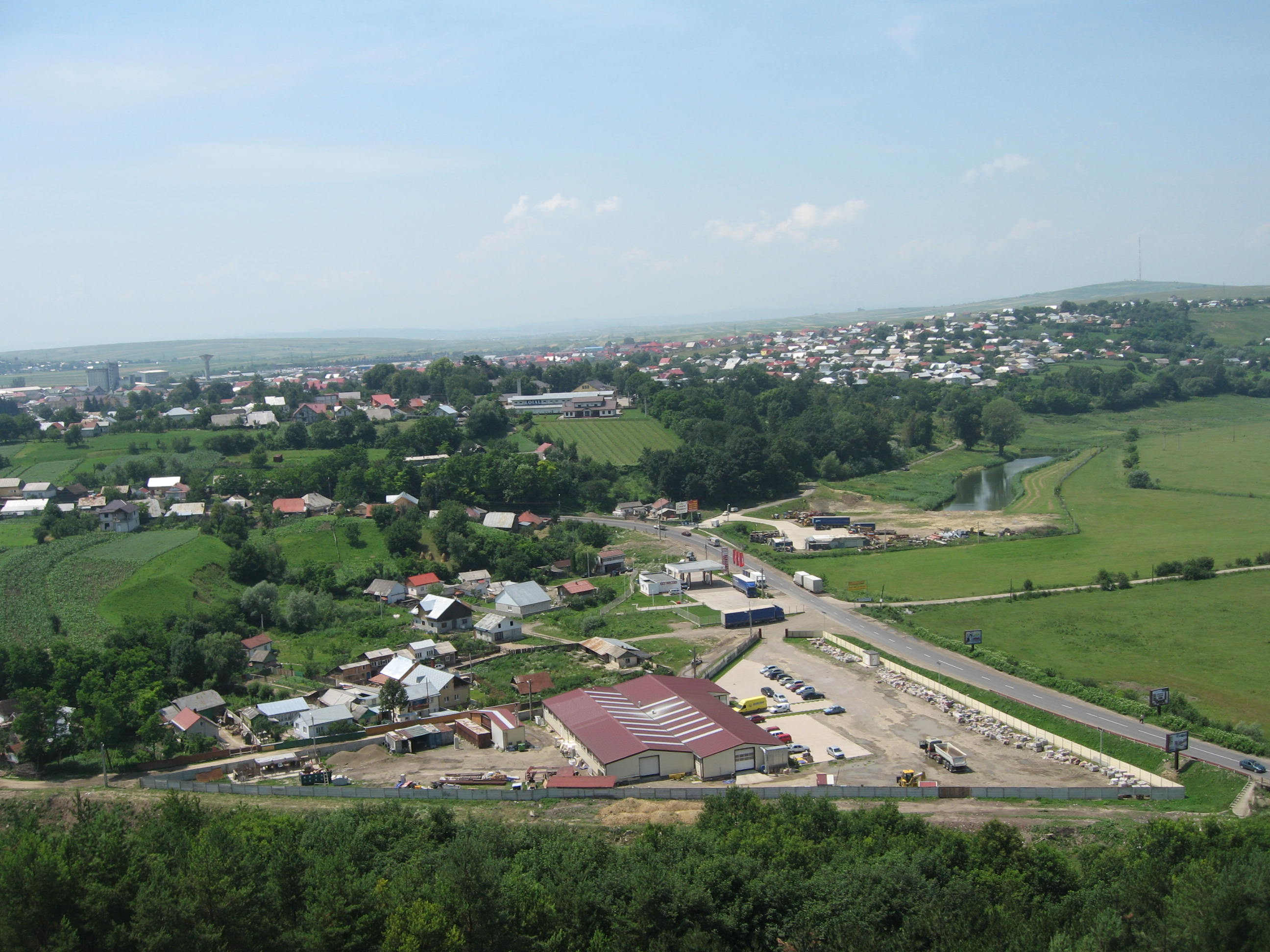 Șcheia Fortress (The Western Fortress of Suceava) – panoramic view of the village of Șcheia, from the fortress plateau.